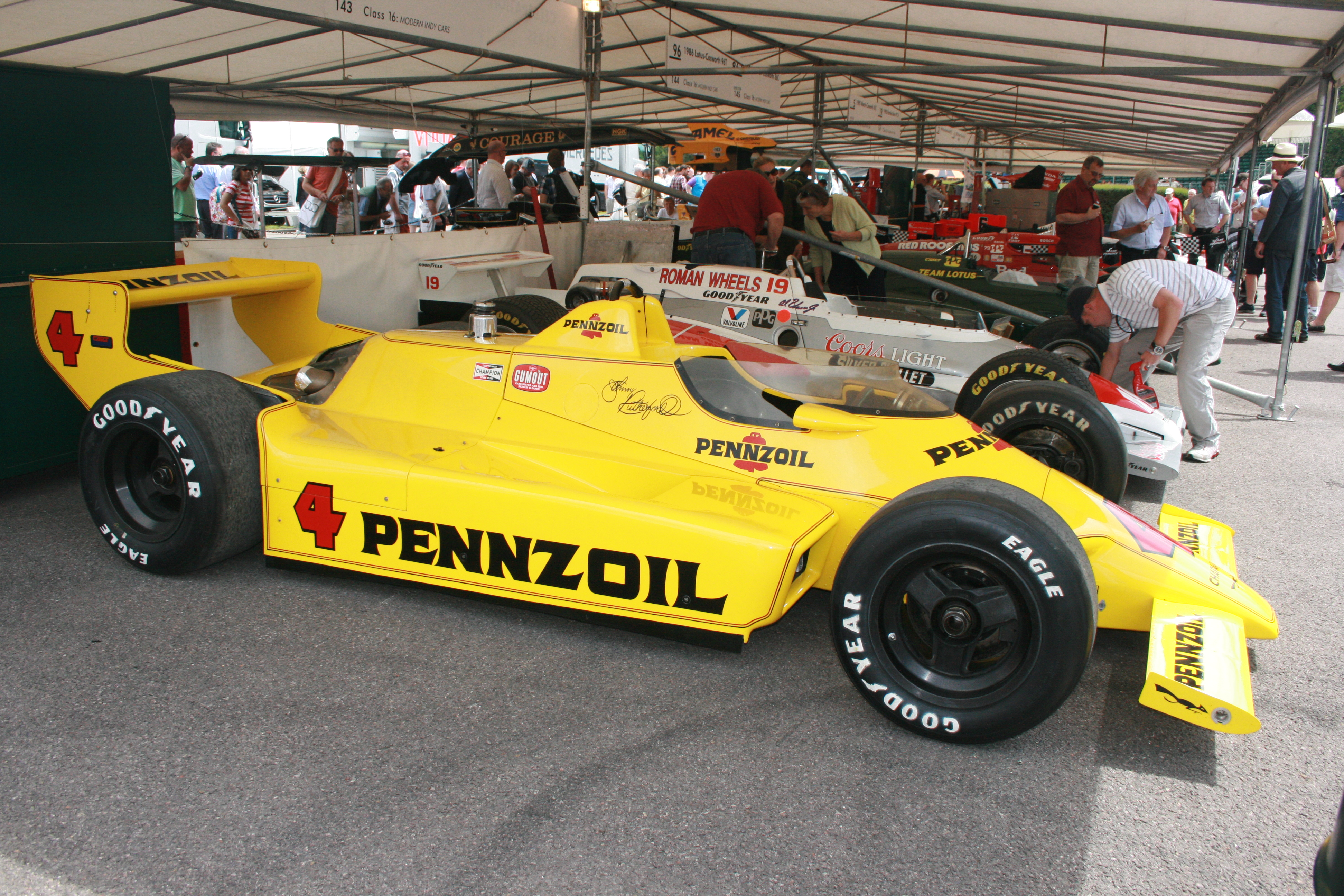 Chapparal-Cosworth 2K